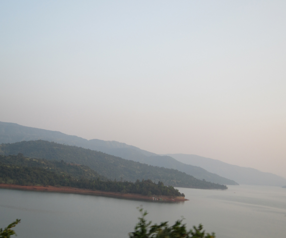 Shri Narayan Maharaj Math,Vinayak Nagar,Bamnoli,Satara